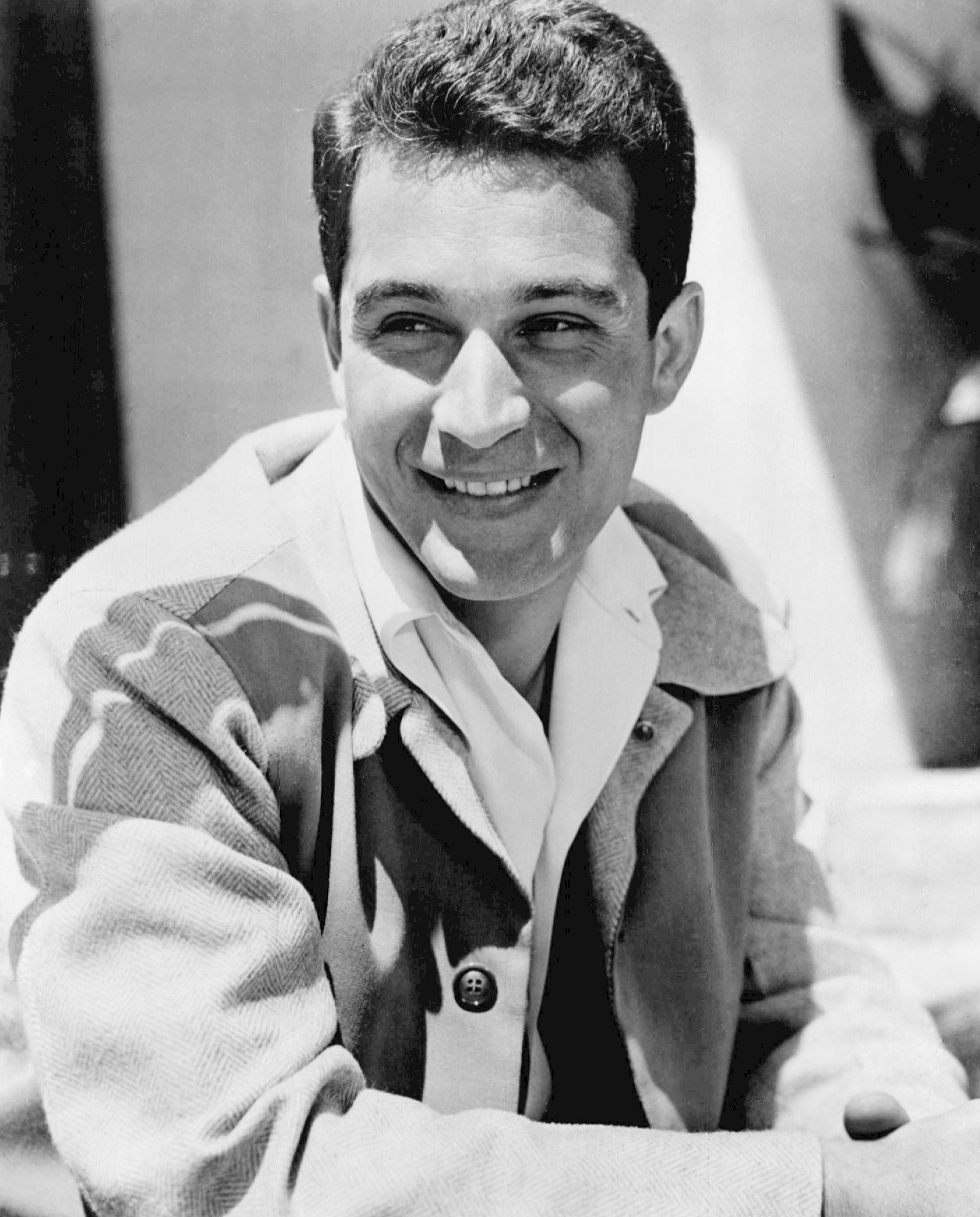 Photo of Perry Como circa 1944.